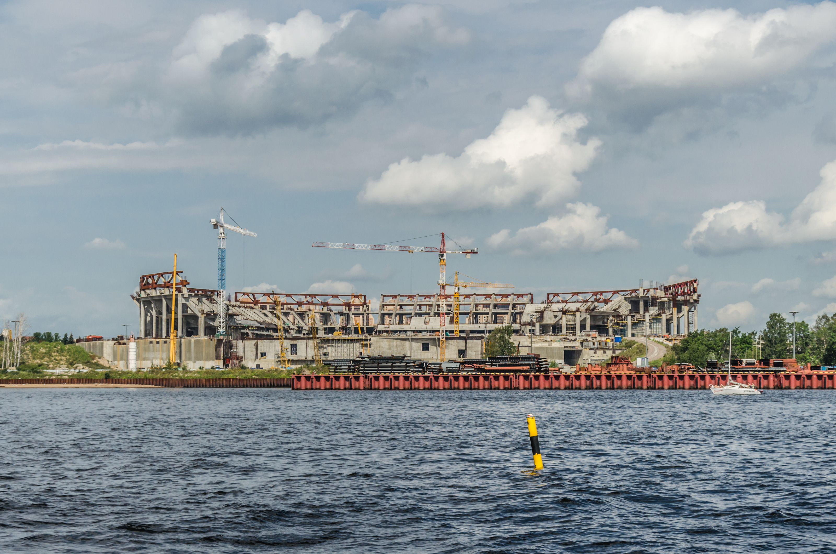 New football stadium construction site in Saint Petersburg